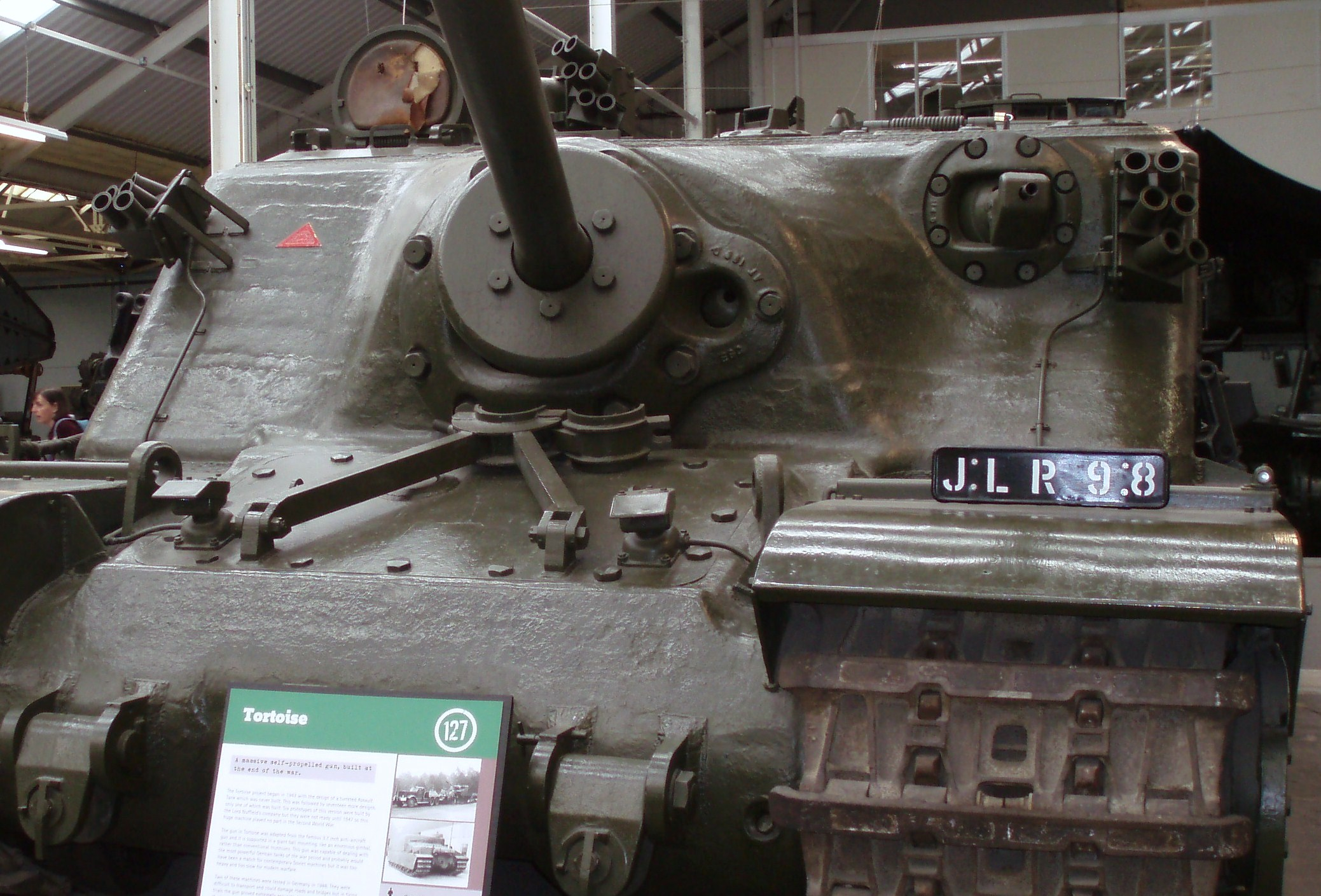 Bovington Tank Museum 342 tortoise